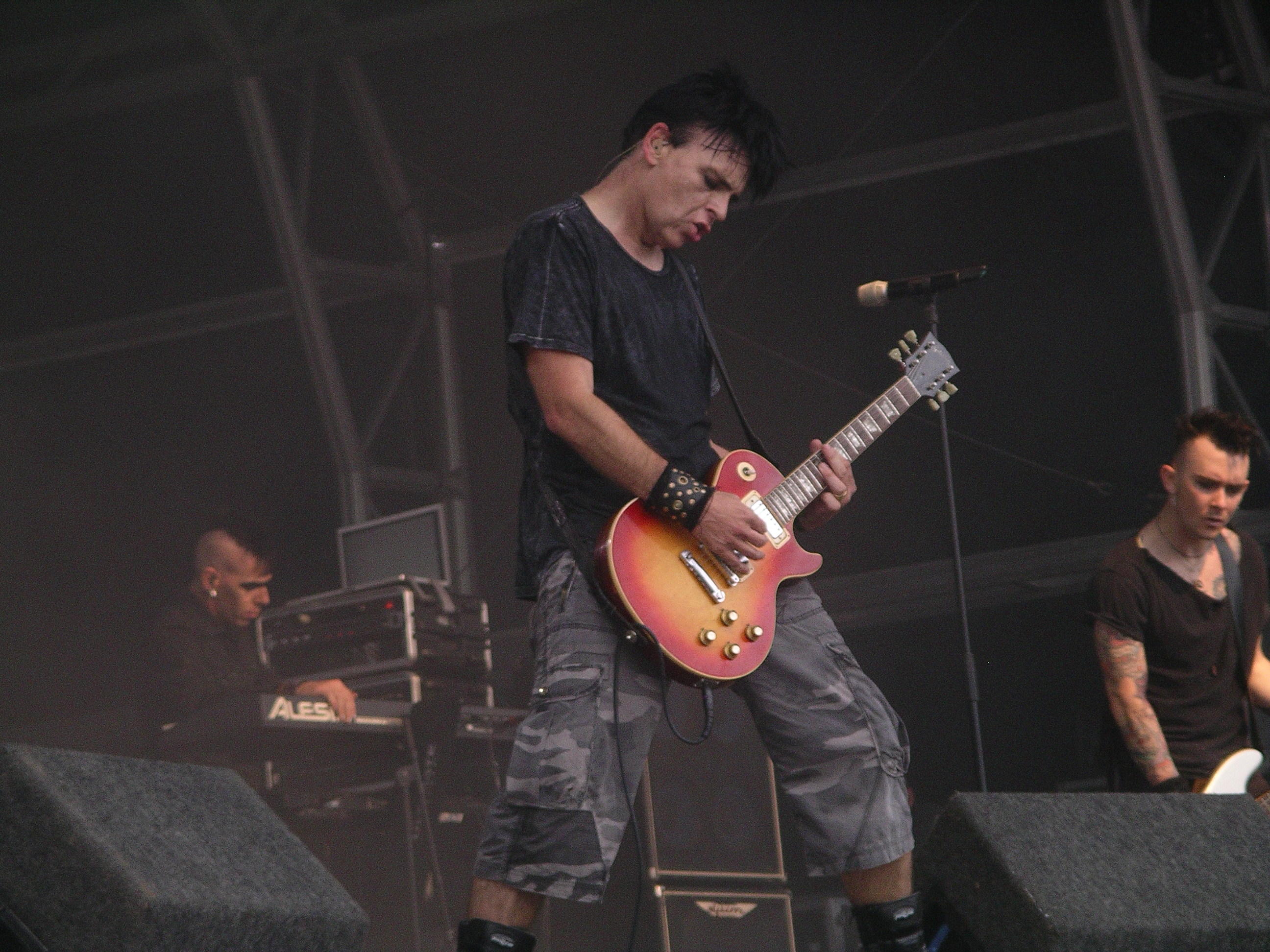 Gary Numan playing live at Bestival on I.O.W September 6th 2008